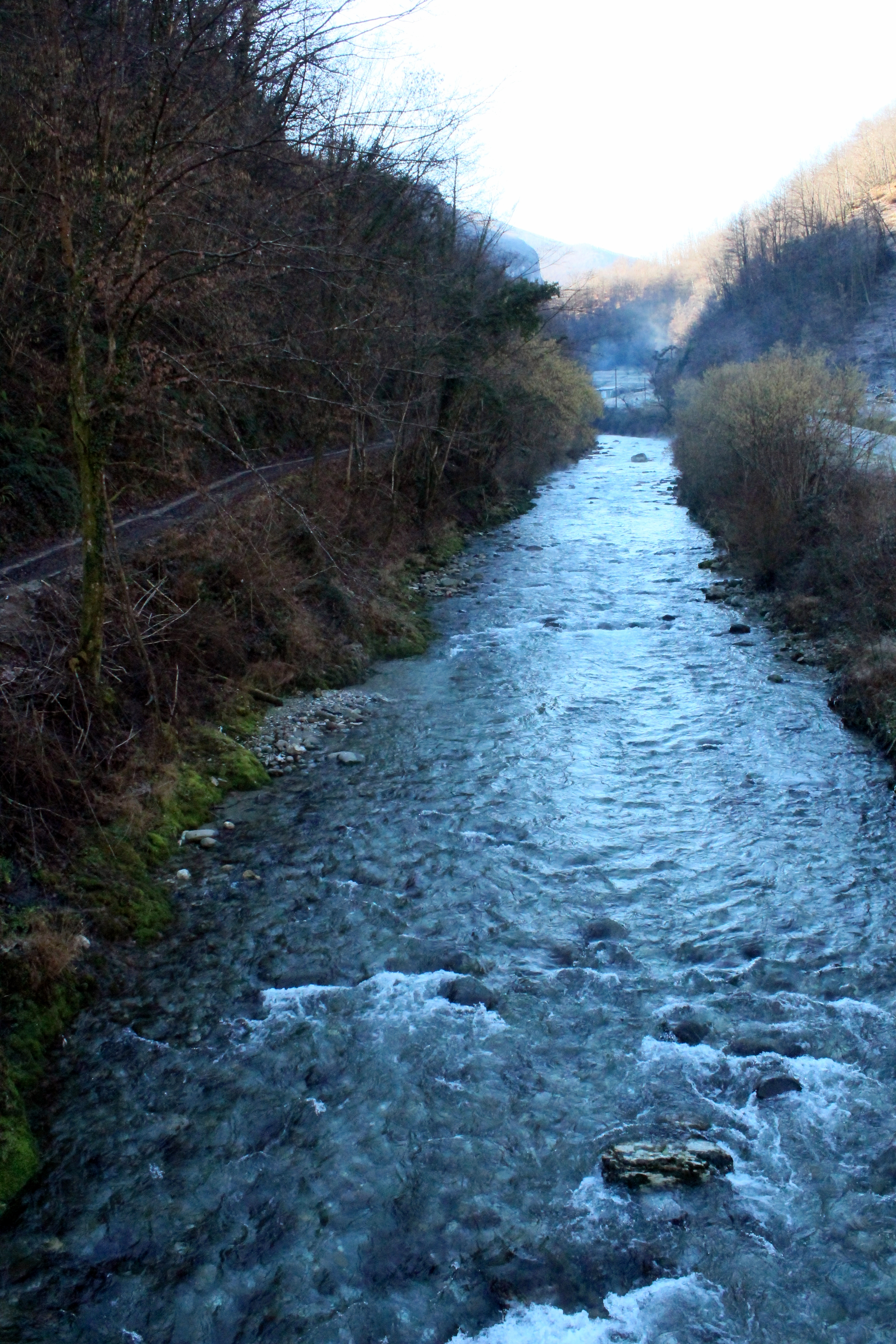 The Turrite Cava River before the Bridge Pontaccio, Gallicano, Province of Lucca, Tuscany, Italy